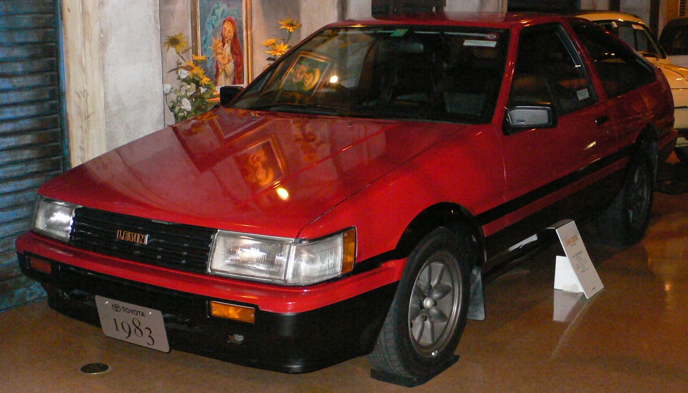 Toyota_Corolla-Levin(1983) photographed in MEGAWEB.